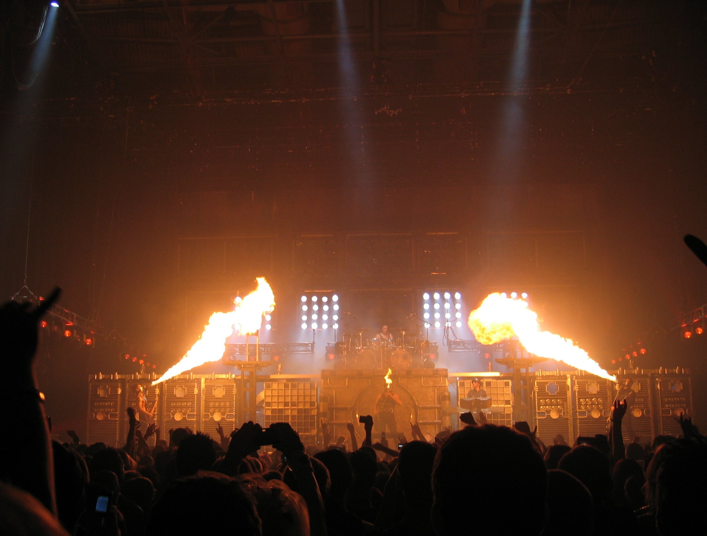 rammstein in nottingham, uk, feb 2005